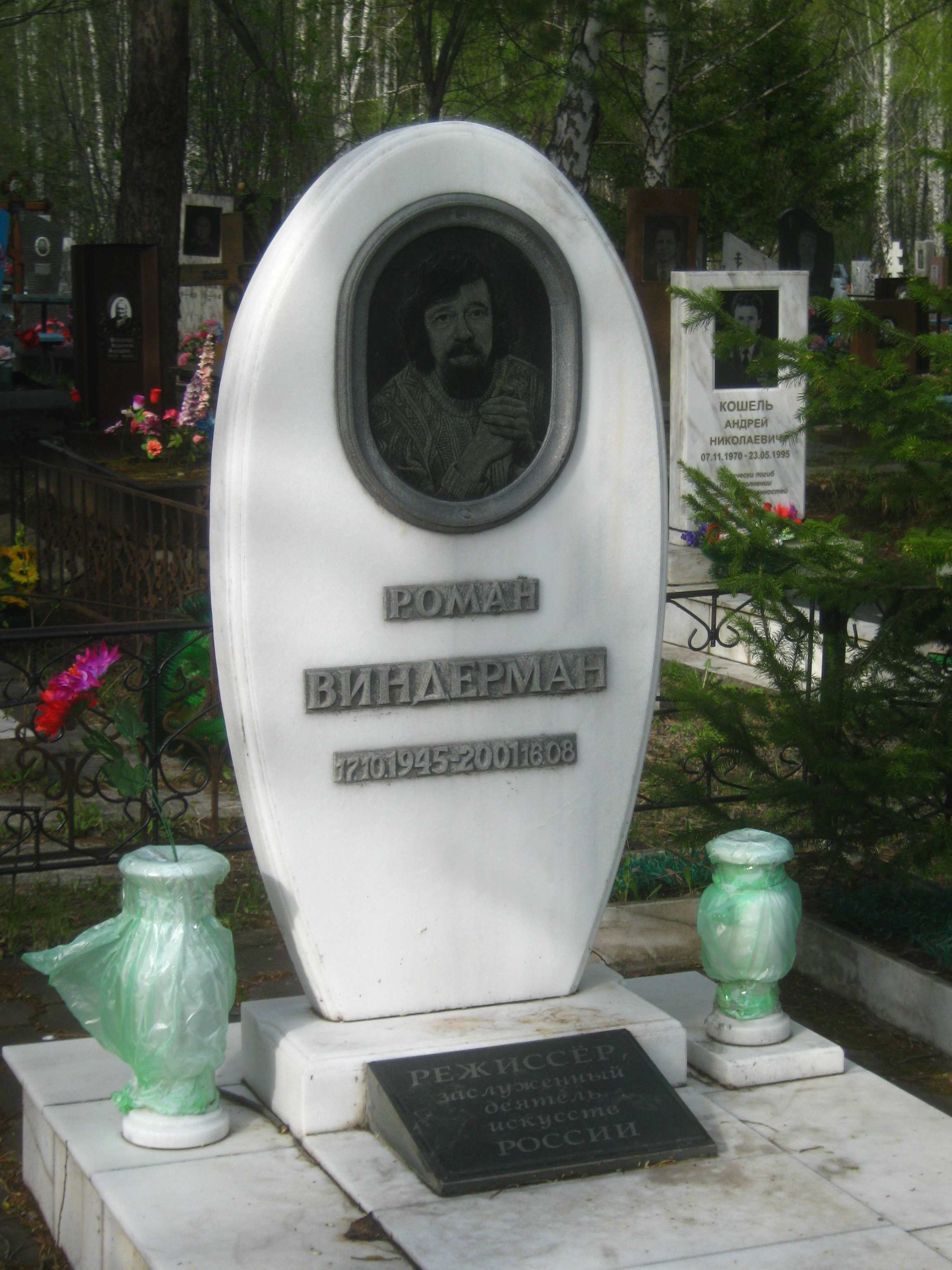 Роман Виндерман на Бактине